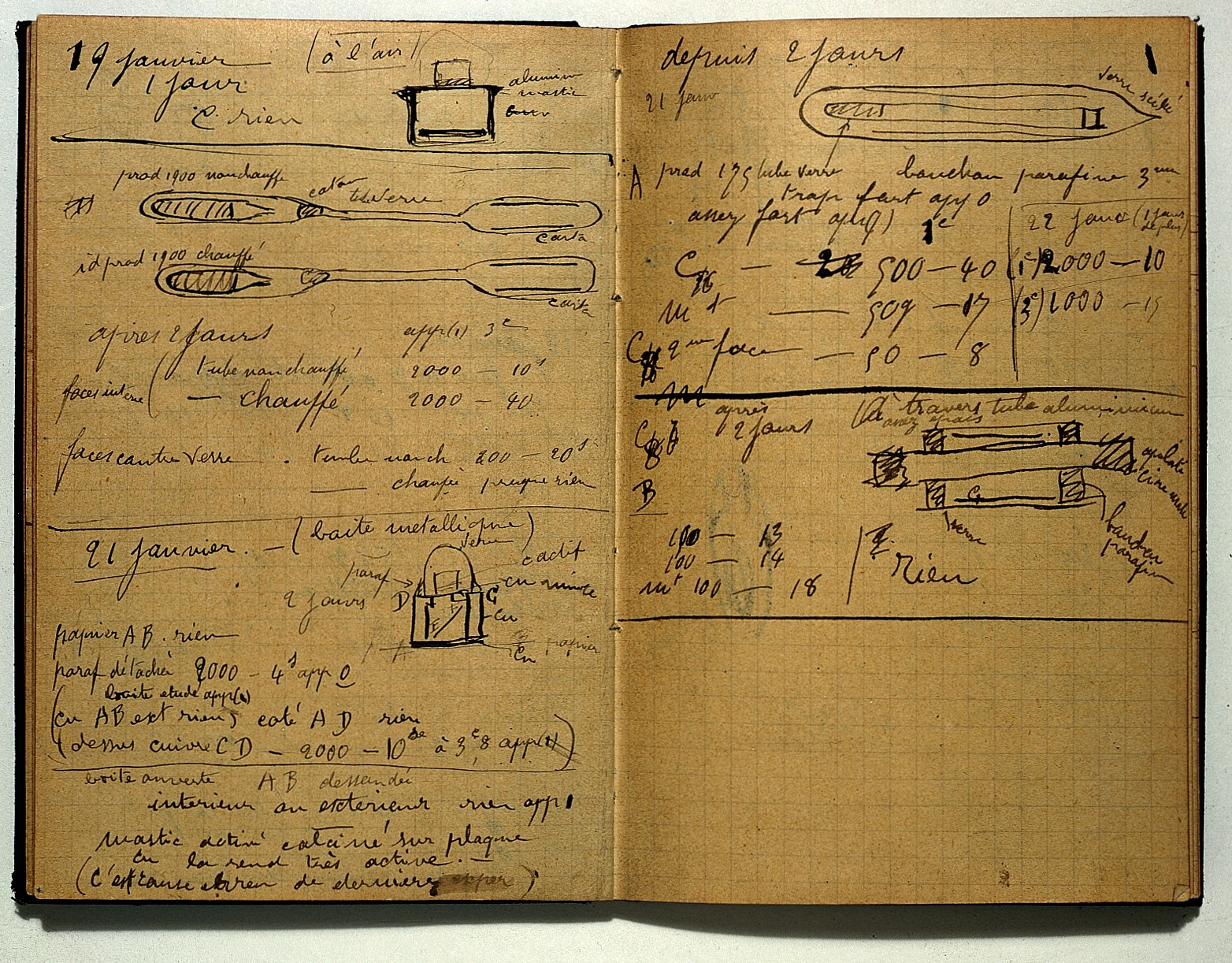 Page from notebook. Archives & Manuscripts Keywords: Marie Curie